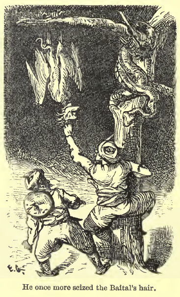 Illustration by Ernest Griset (1844-1907) from Richard Francis Burton's Vikram and the Vampire (1870)